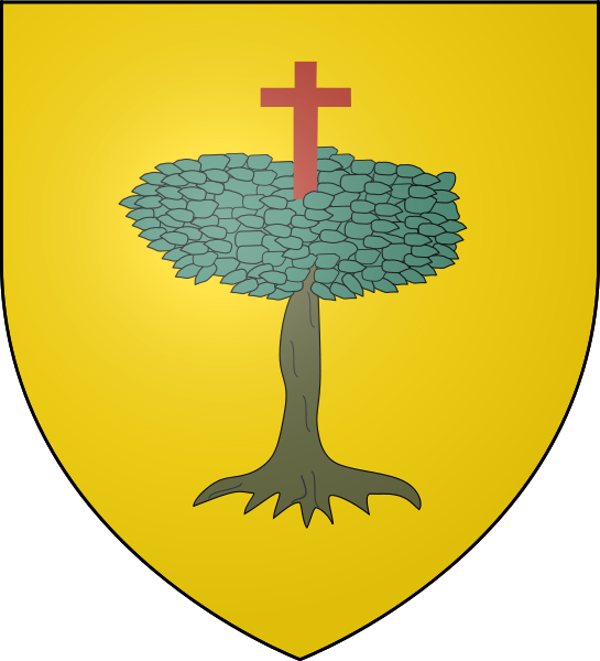 Coat of Arms of Sobrarbe, historical county and nowadays a comarca in Aragon, Spain. Taken from the Aragonese Wikipedia project as it was originally uploaded by Ebrenc